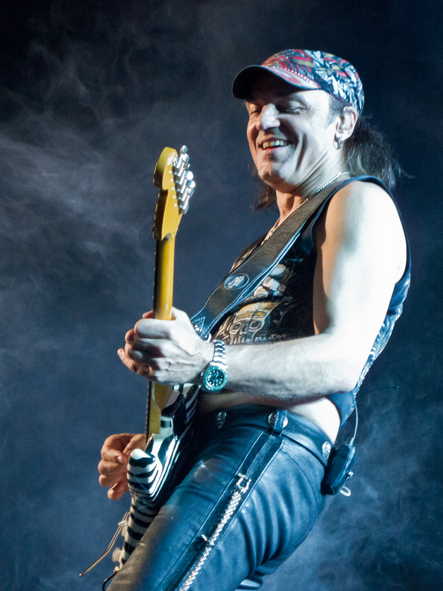 Matthias Jabs, guitarist of German rock band Scorpions, in Madrid in 2014.